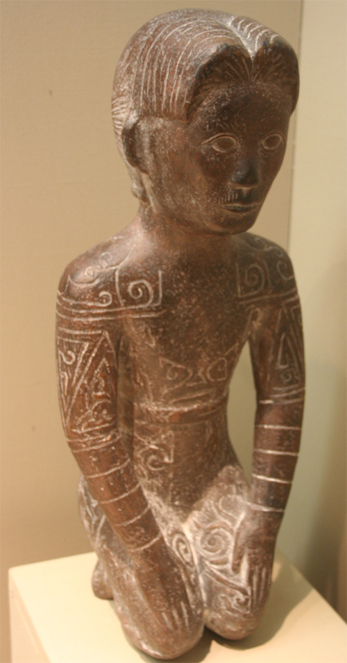 An statue of a man, dating from State of Yue, located in the State Museum of Zhejiang province, Hangzhou, Zhejiang, China.